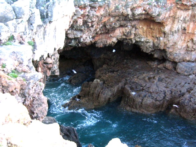 picture taken by User:Husond.